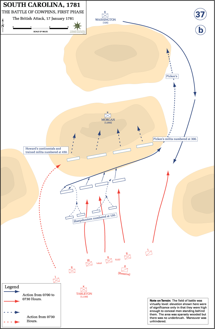 The Battle of Cowpens - British Attack - First Phase